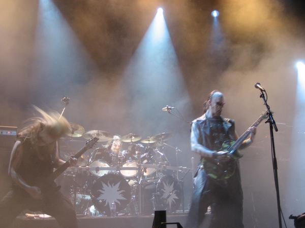 Troll in the Rockefeller Music Hall